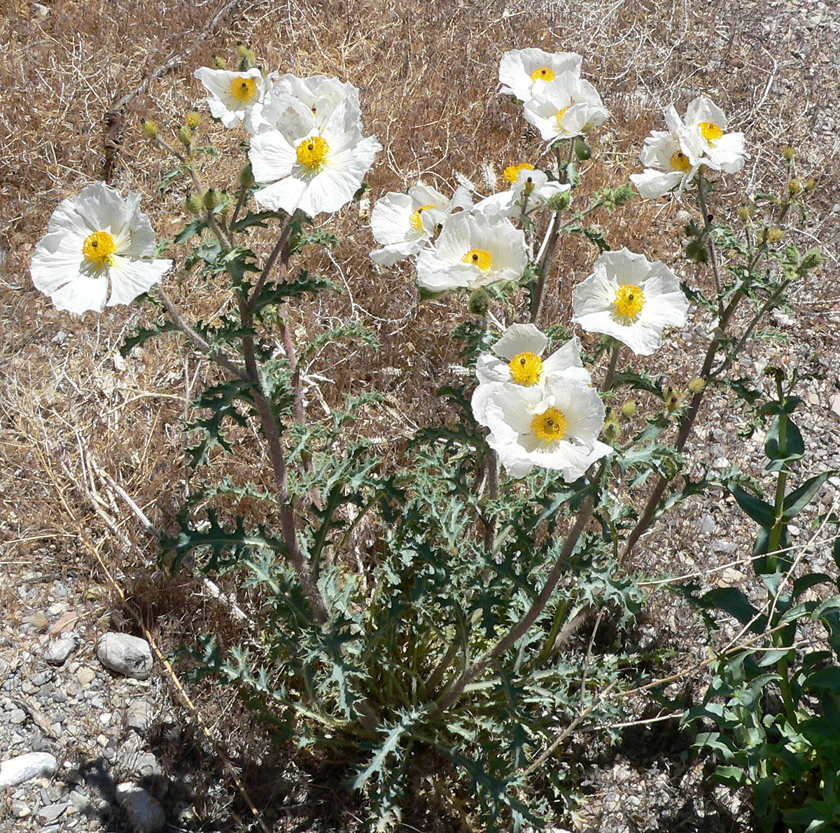 Argemone munita in Kyle Canyon, Spring Mountains, west of Las Vegas, Nevada